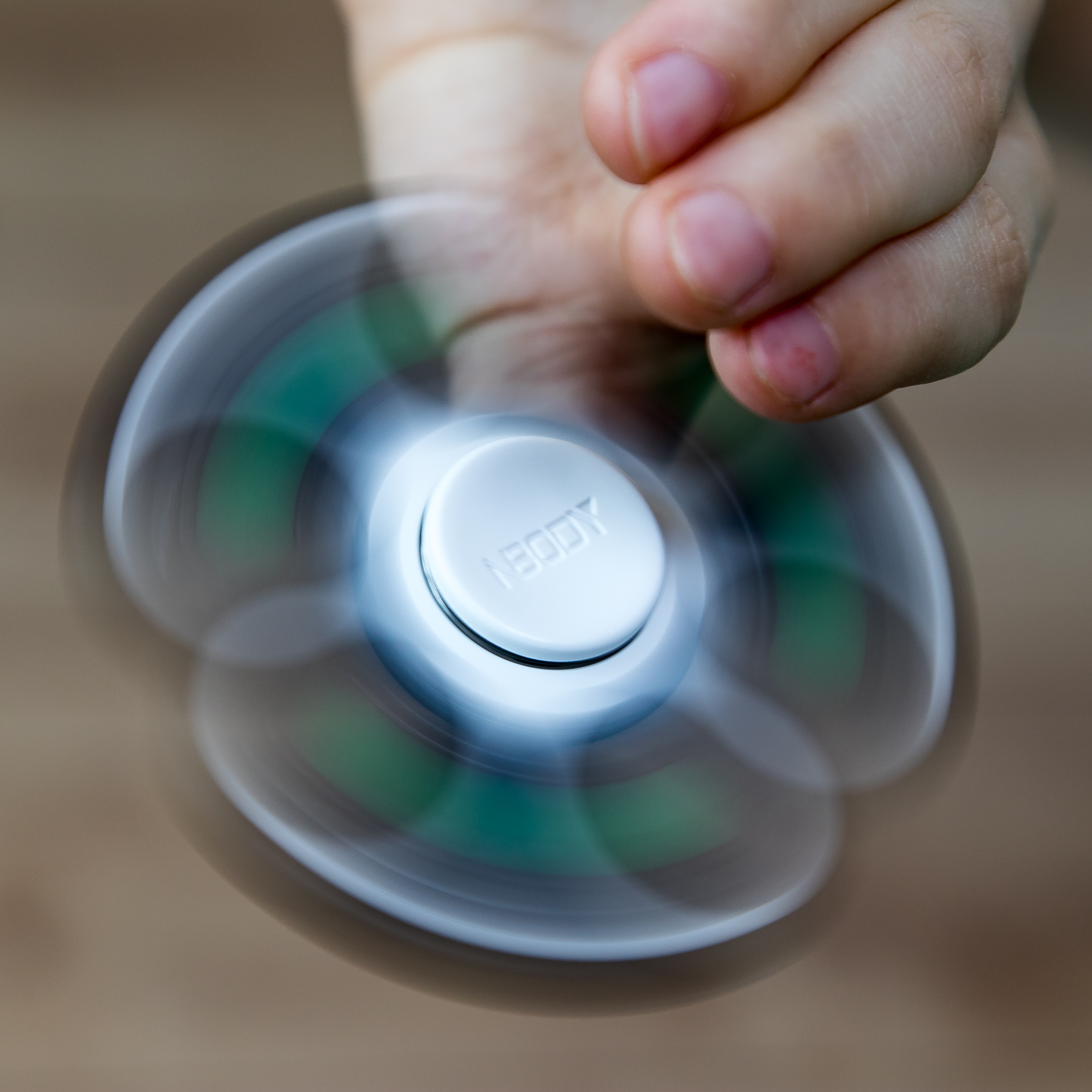 Fidget Spinner in action